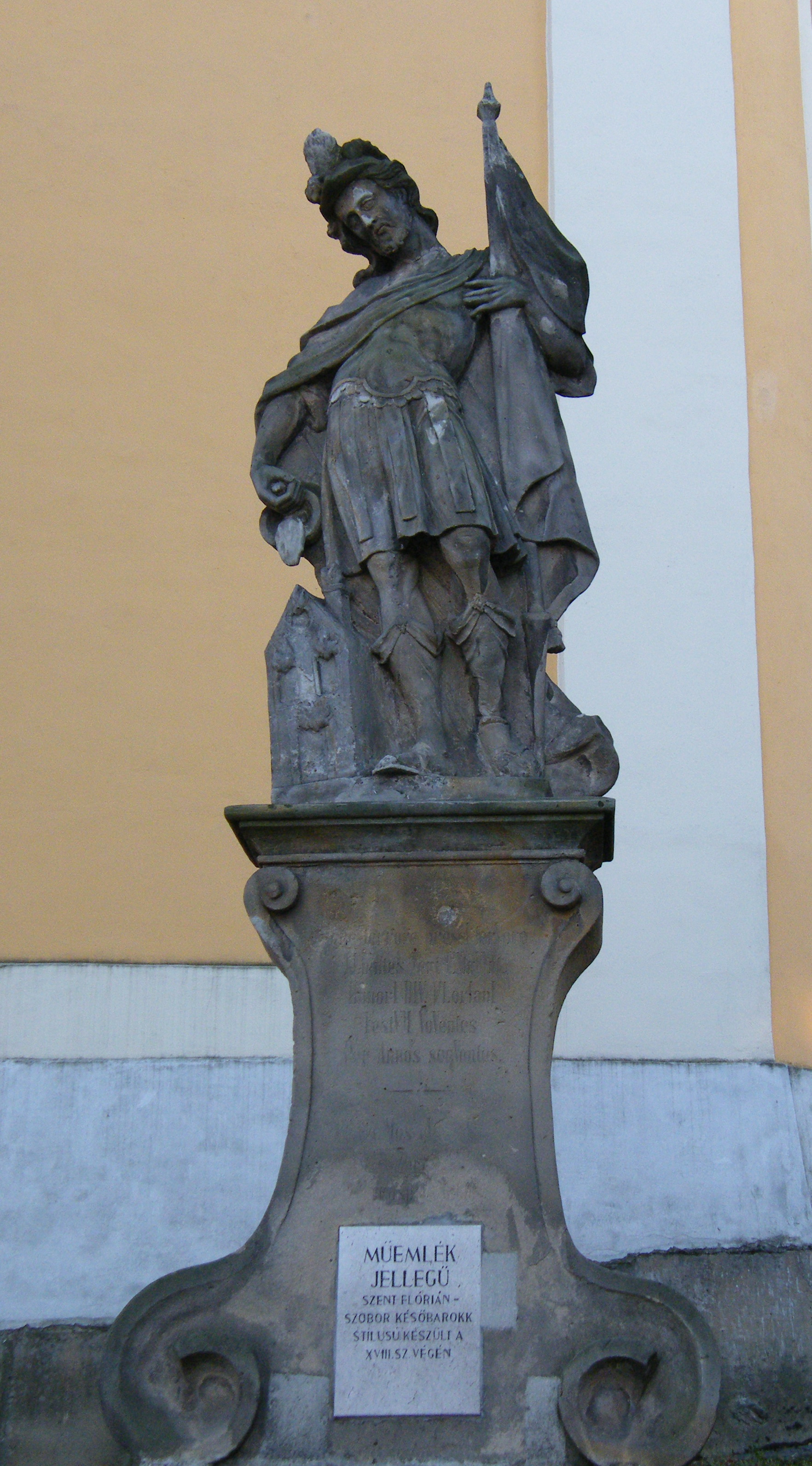 Statue of Saint Florian, Zalaegerszeg